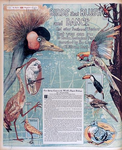 Cover of the New York World Magazine This issue of the New York World Sunday magazine featured an article by William Beebe, then curator of ornithology at the Bronx Zoo, who went on to become co-inventor of the bathysphere.